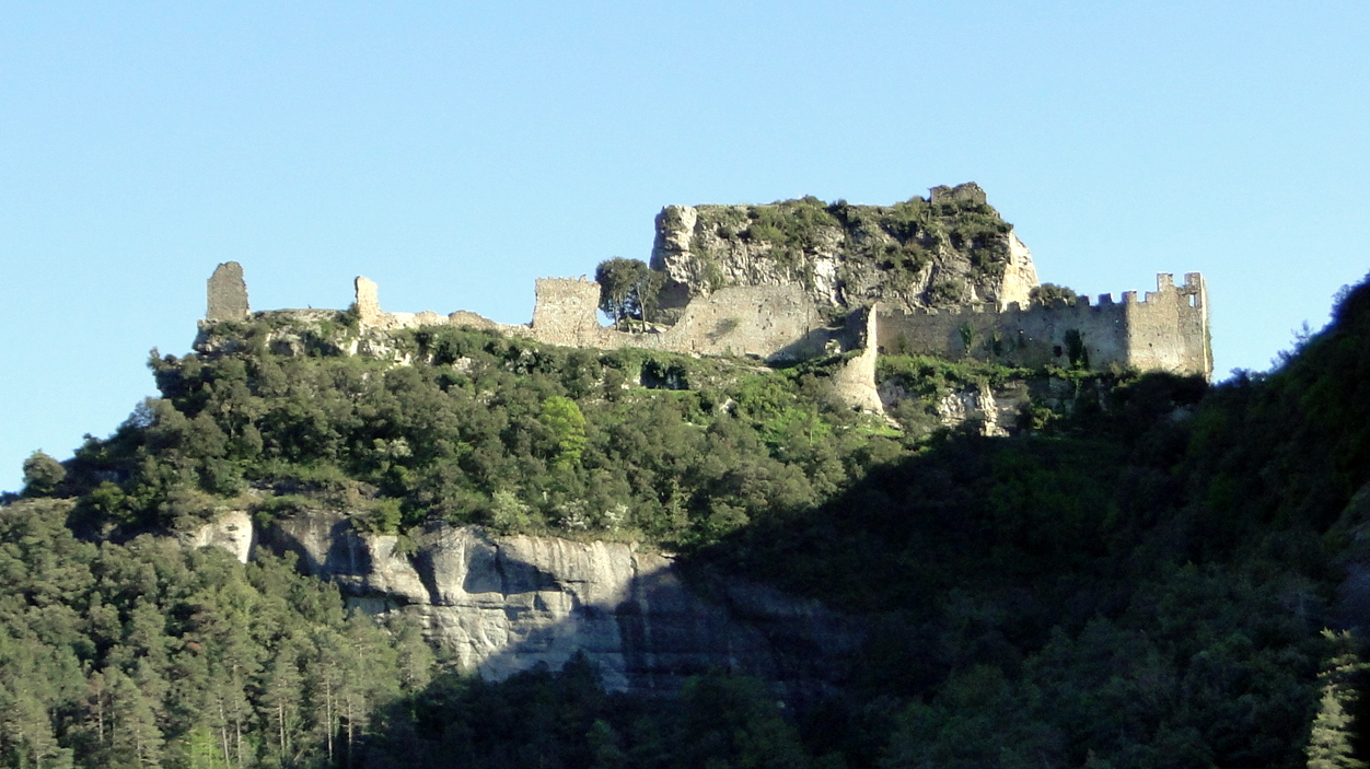 Castell de Sant Martí de Centelles